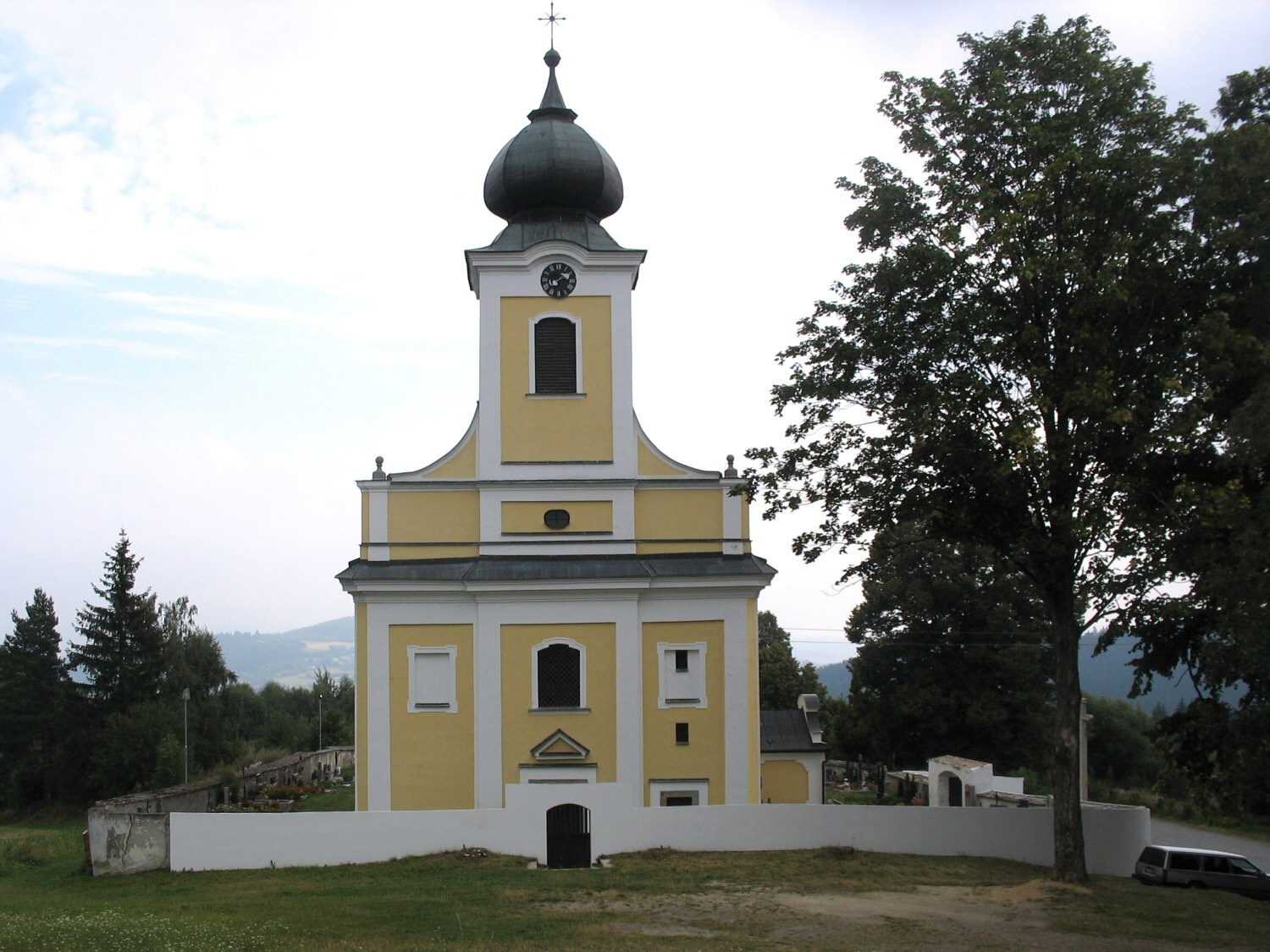 The Church in Lštění, part of Radhostice municipality, Prachatice District, Czech Republic